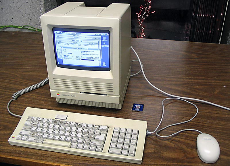 Macintouch SE/30